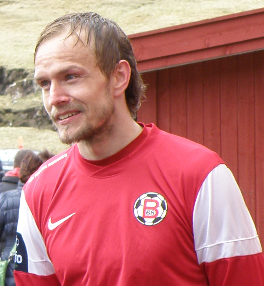 Christian Høgni Jacobsen is a Faroese football (soccer) player, a striker. He has played 50 matches for the Faroe Islands national team (as of April 2012). In 2012 he plays for the Faroese club B68. Earlier he has played for the Faroese clubs NSÍ Runavík and HB Tórshavn. He has also played for the Danish clubs Esbjerg fB and Vejle BK. Føroyskt: Christian Høgni Jacobsen er føroyskur fótbóltsleikari, sum hevur spælt 50 A-landsdystir fyri Føroyar. Hann hevur spælt við føroysku feløgunum NSÍ, HB og B68 og við donsku feløgunum Vejle BK og Esbjerg fB. Henda myndin er tikin á Eiðinum í Vági eftir landskappingardystin millum FC Suðuroy og B68. B68 vann dystin 1-0, tað var Christian Høgni sum skoraði málið.